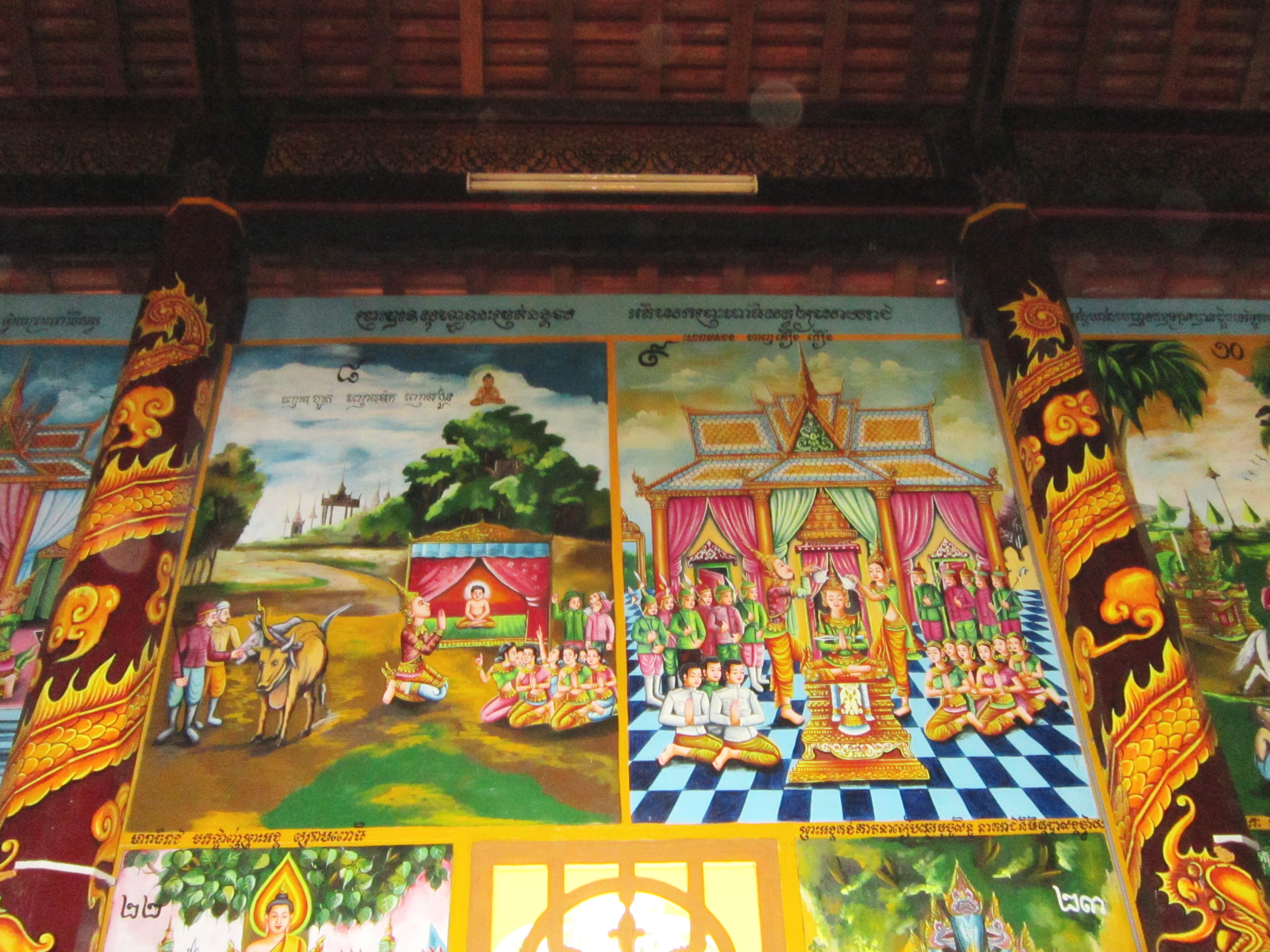 Tranh tường vẽ về cuộc đời Phật Thích Ca trong chùa Âng (tên Khmer là Angkorajaborey). Đây là một ngôi chùa cổ trong hệ thống chùa Khmer của tỉnh Trà Vinh, Việt Nam.